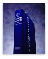 Picture of "Human Action" written by Ludwig von Mises. I am contributor of the institute's website and was given permission to upload this image via Jeff Tucker, Editorial VP.